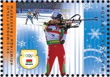 Part of Belarus souvenir sheet no. 72, commemorating the 2010 Winter Olympics and featuring the biathlon.